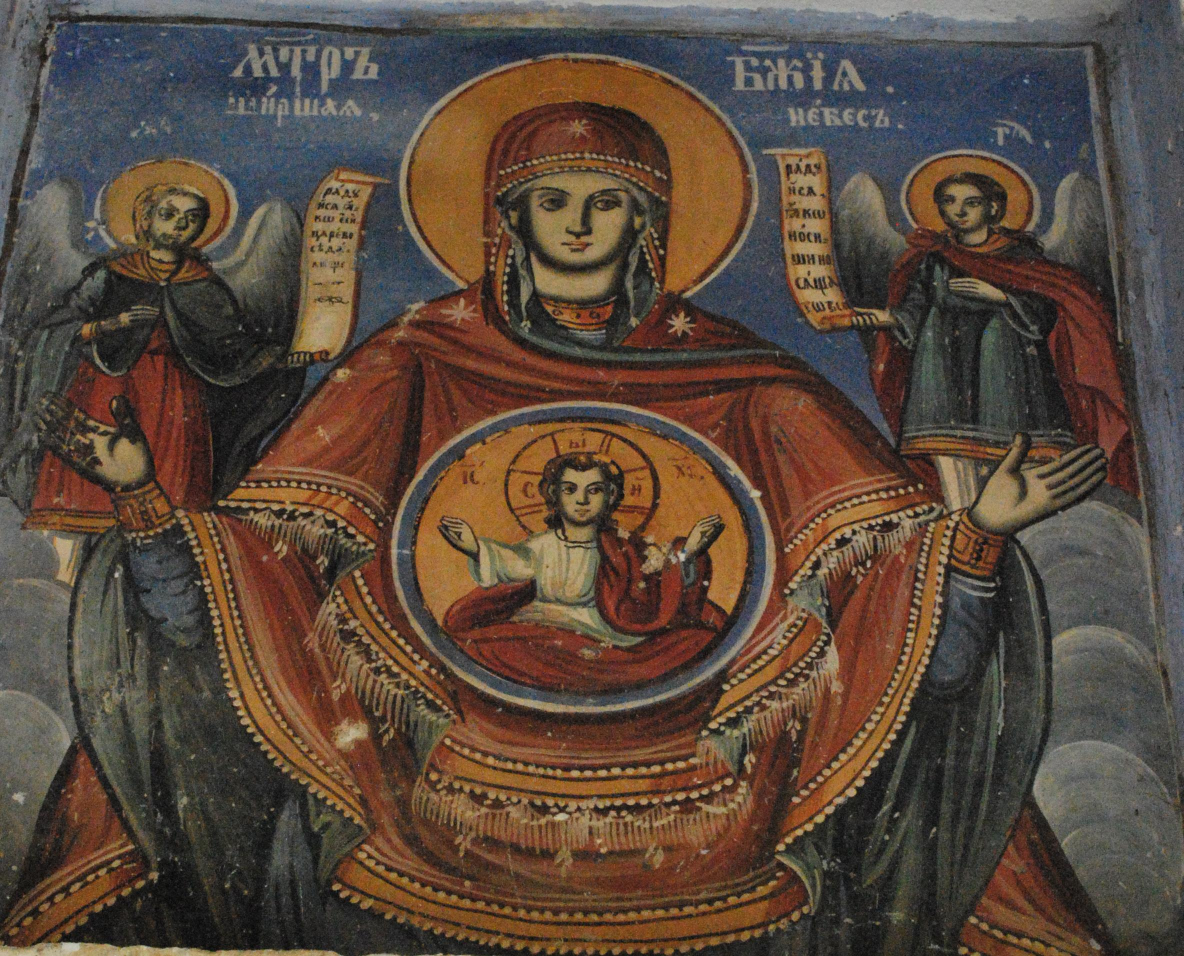 Church of the Presentation of the Theotokos in Kičevo Monastery, near Kičevo, Macedonia